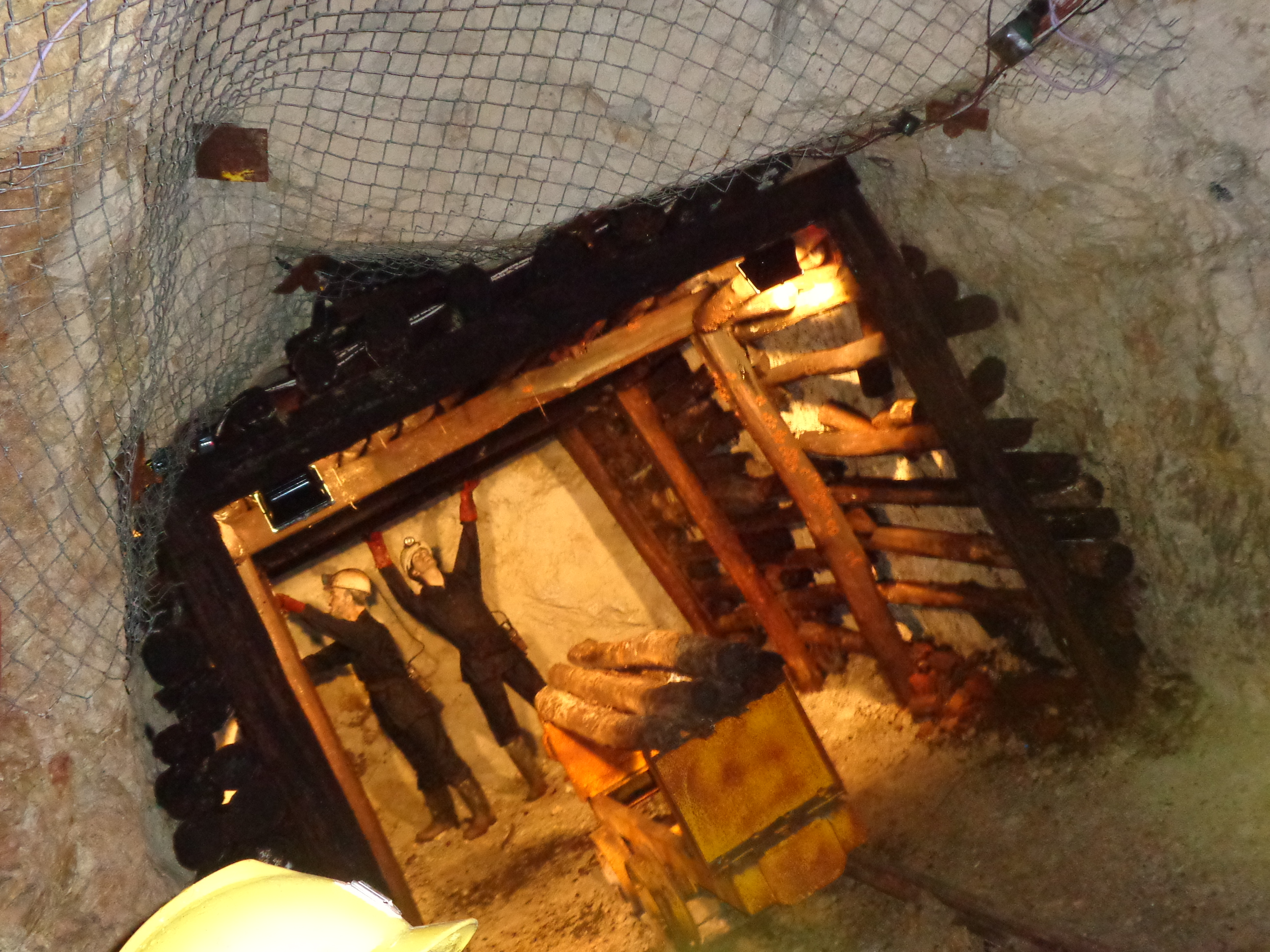 Vagonetto - Fokis Mining Park, one of Greece’s unique attractions, located on the 51st km of the Lamia-Amfissa National Road